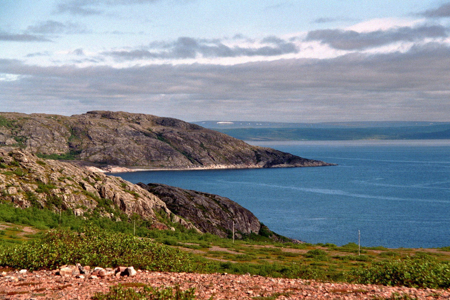 Jarfjord, seen from N886, Sør-Varanger, Finnmark, Norway